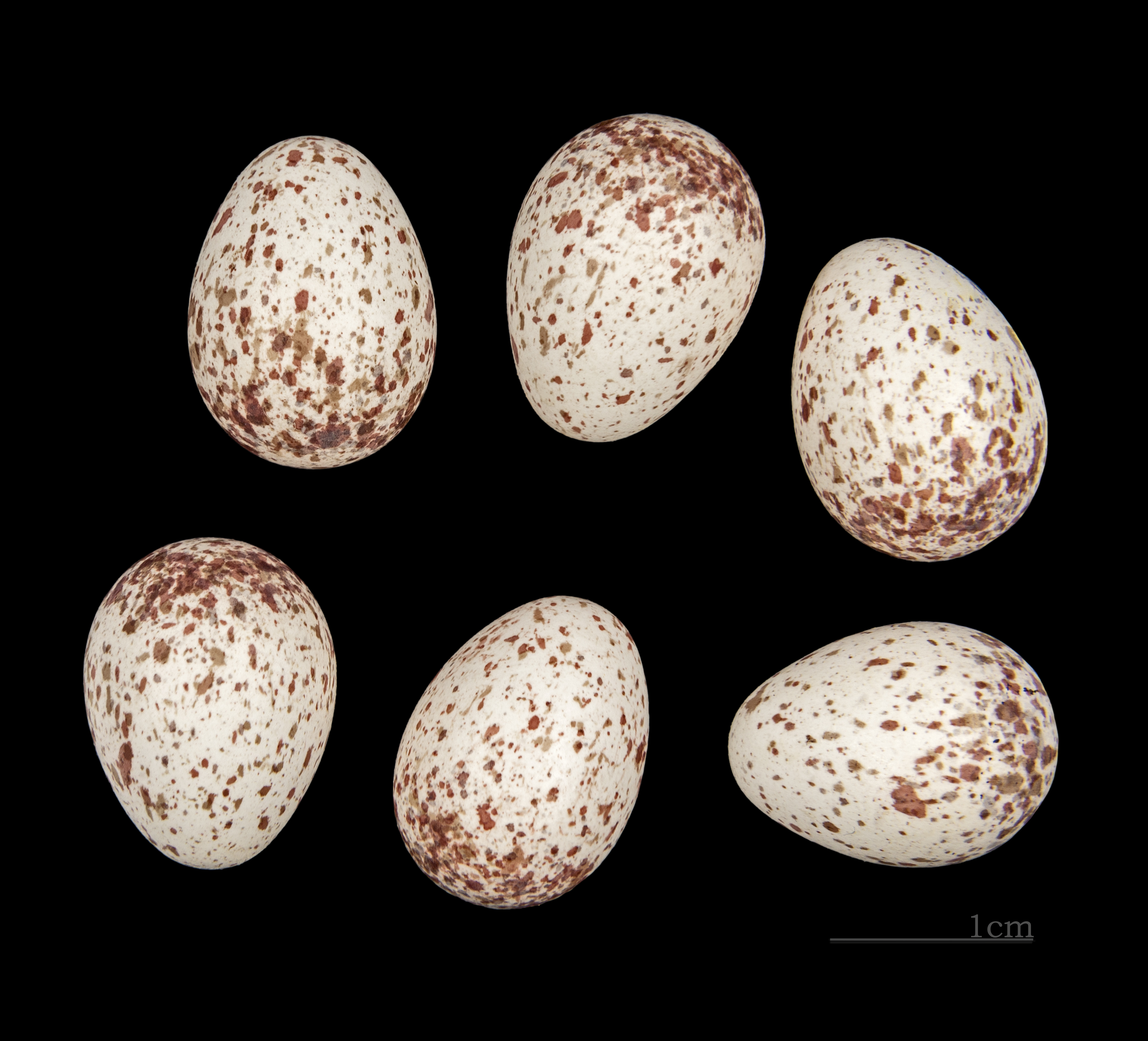 Egg of Short-toed Treecreeper. Collection of Jacques Perrin de Brichambaut.